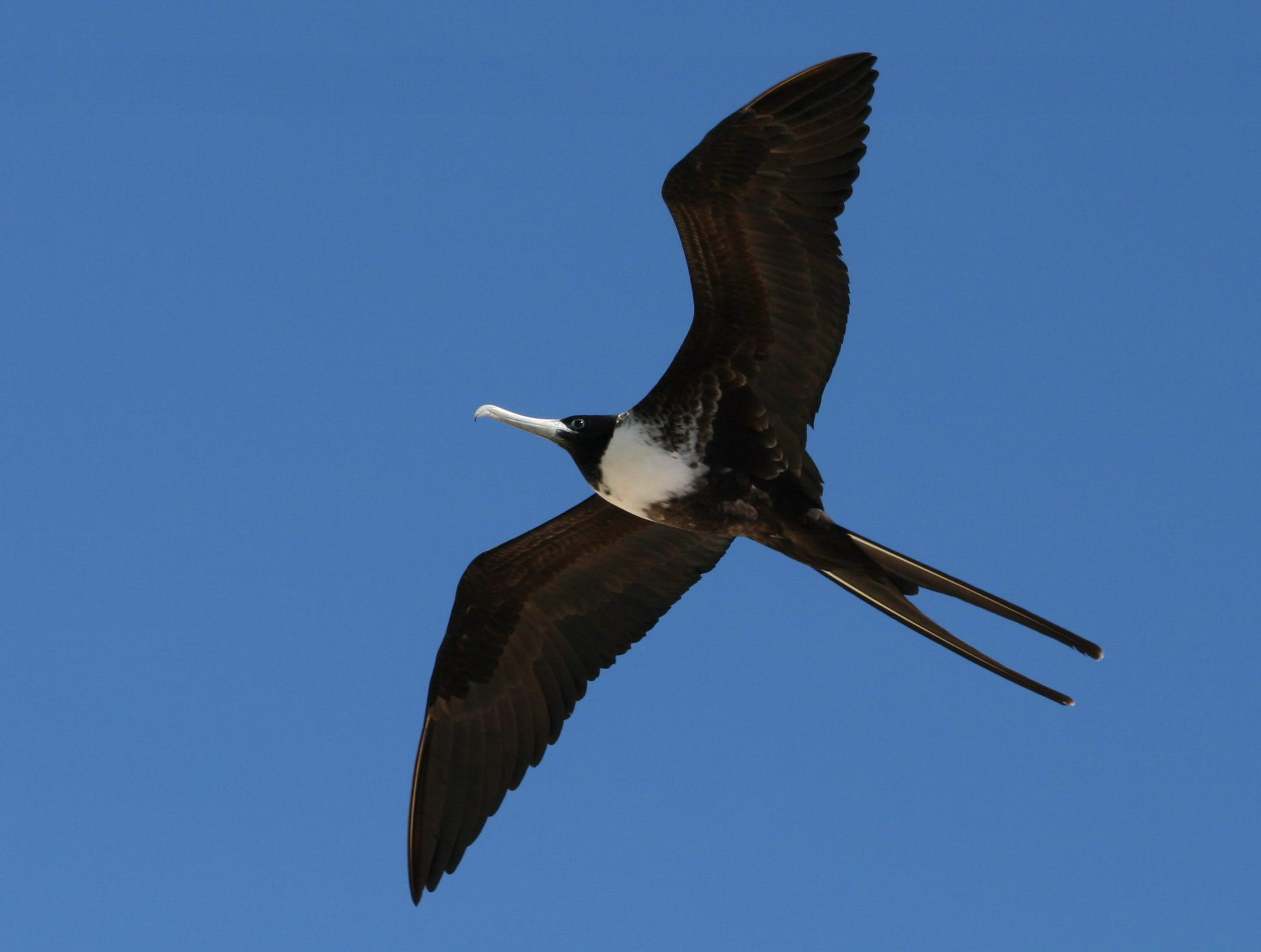 Female Magnificent Frigatebird (Fregata magnificens) - the Galapagos Islands